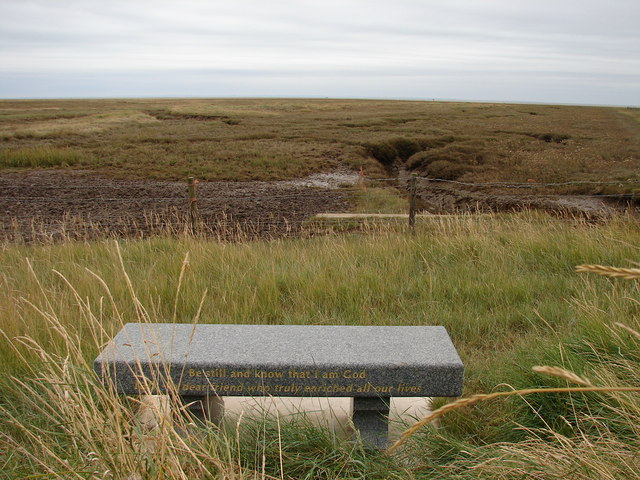 Be still .. .. and know that I am God. (Psalm 46:10) So reads this memorial to Charles (Ian) Massey F.R.C.S. with fine views over the saltmarsh.